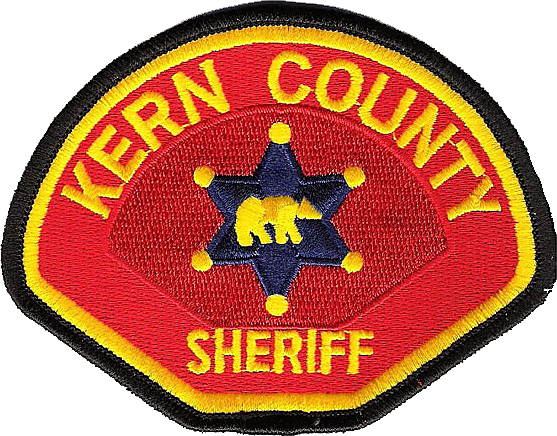 Patch of the Kern County Sheriff's Department (KCSD), worn on KCSD uniforms.